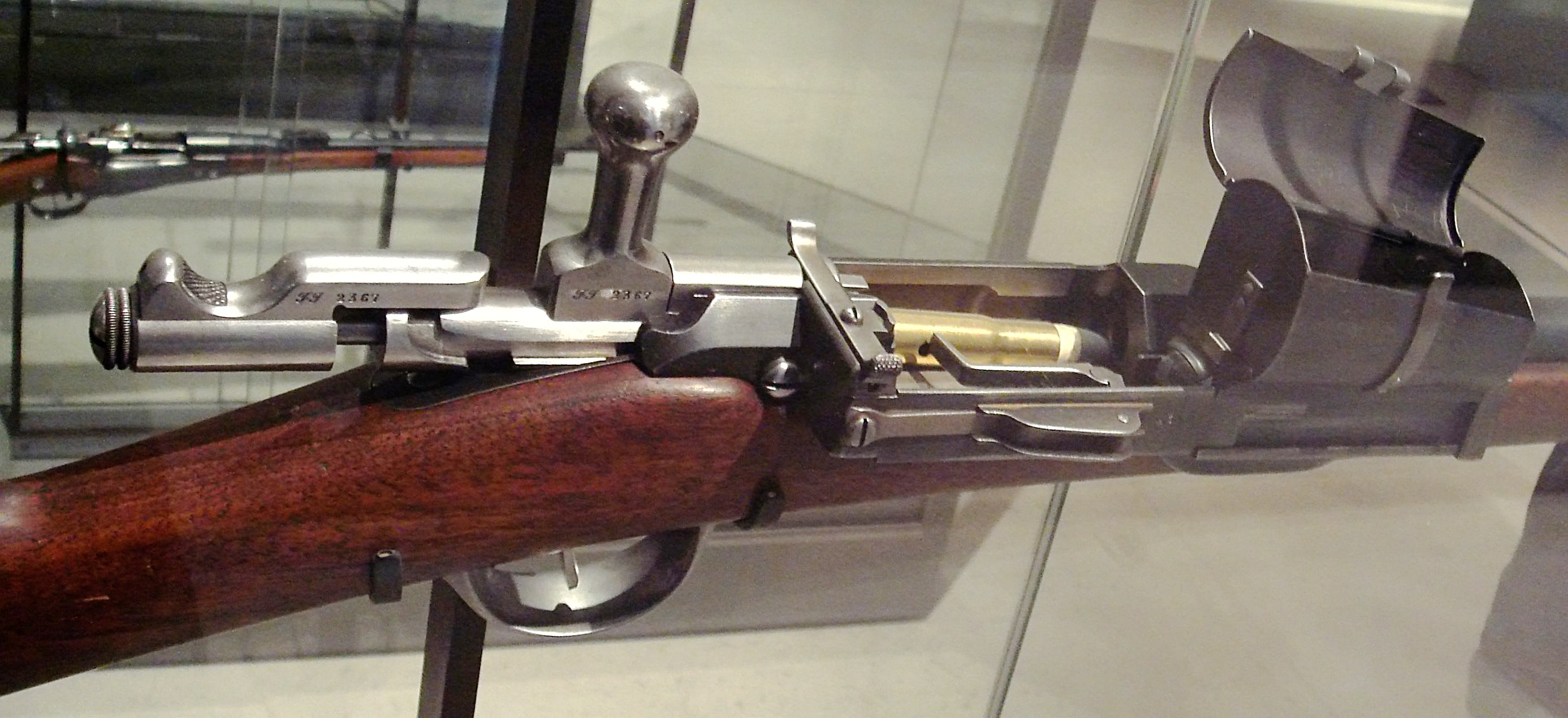 Fusil Gras mle 1874 with 10 cartridge magazine 1883